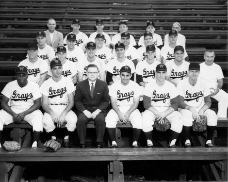 The 1959 Williamsport Grays, an American minor league baseball team.